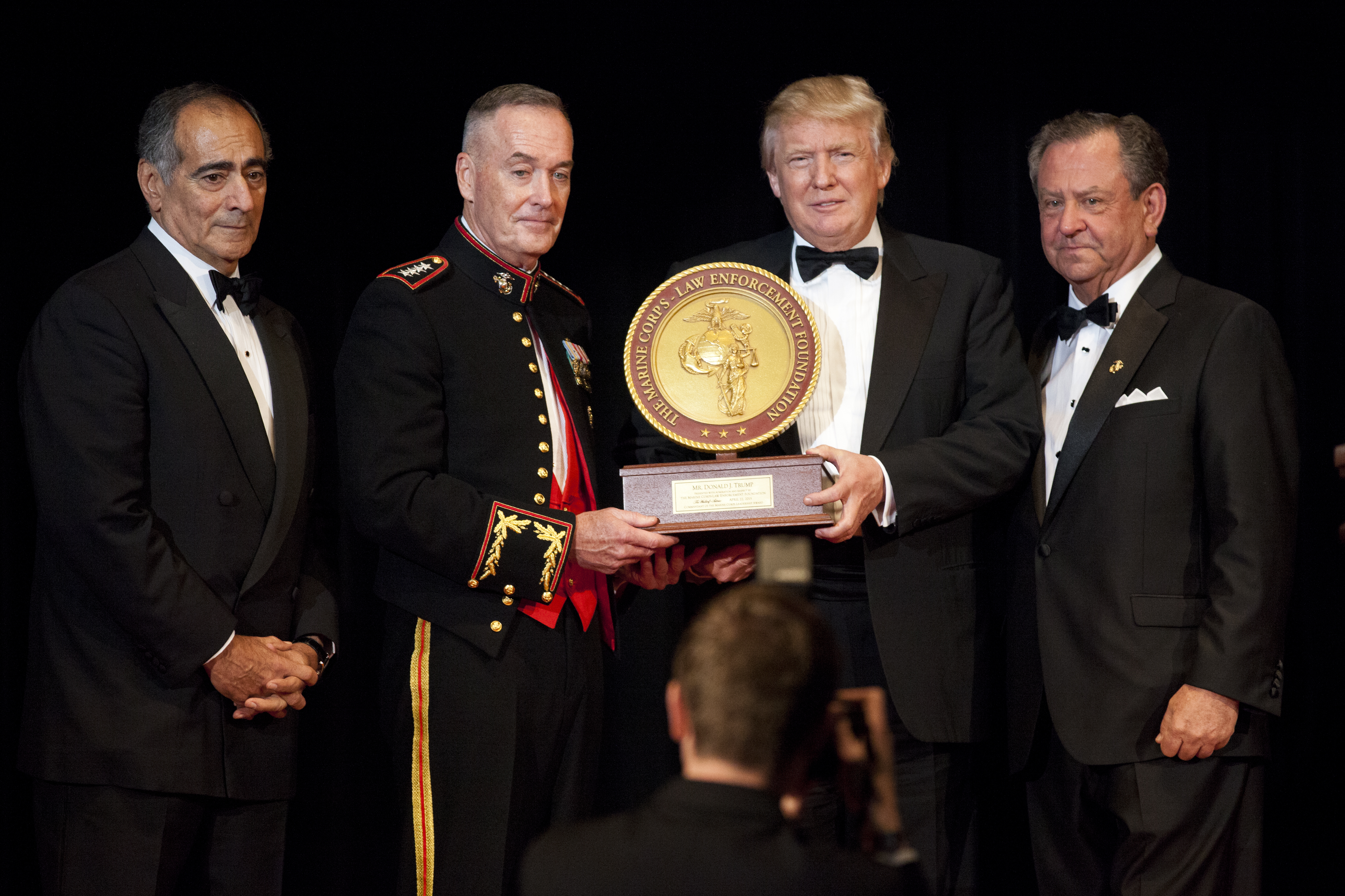 Original description from Marine Corps press release-- "New York, N.Y. - John Mack, left, Commandant of the Marine Corps, Gen. Joseph F. Dunford, Jr., second left, and Steven Wallace, right, the Co-founder of Marine Corps-Law Enforcement Foundation (MC-LEF), award Donald J. Trump during the MC-LEF 20th Annual Semper Fidelis Gala at New York, N.Y., April 22, 2015. Trump was a recipient of the Commandant's Leadership award at the event. (U.S. Marine Corps photo by Sgt. Gabriela Garcia/Released)"